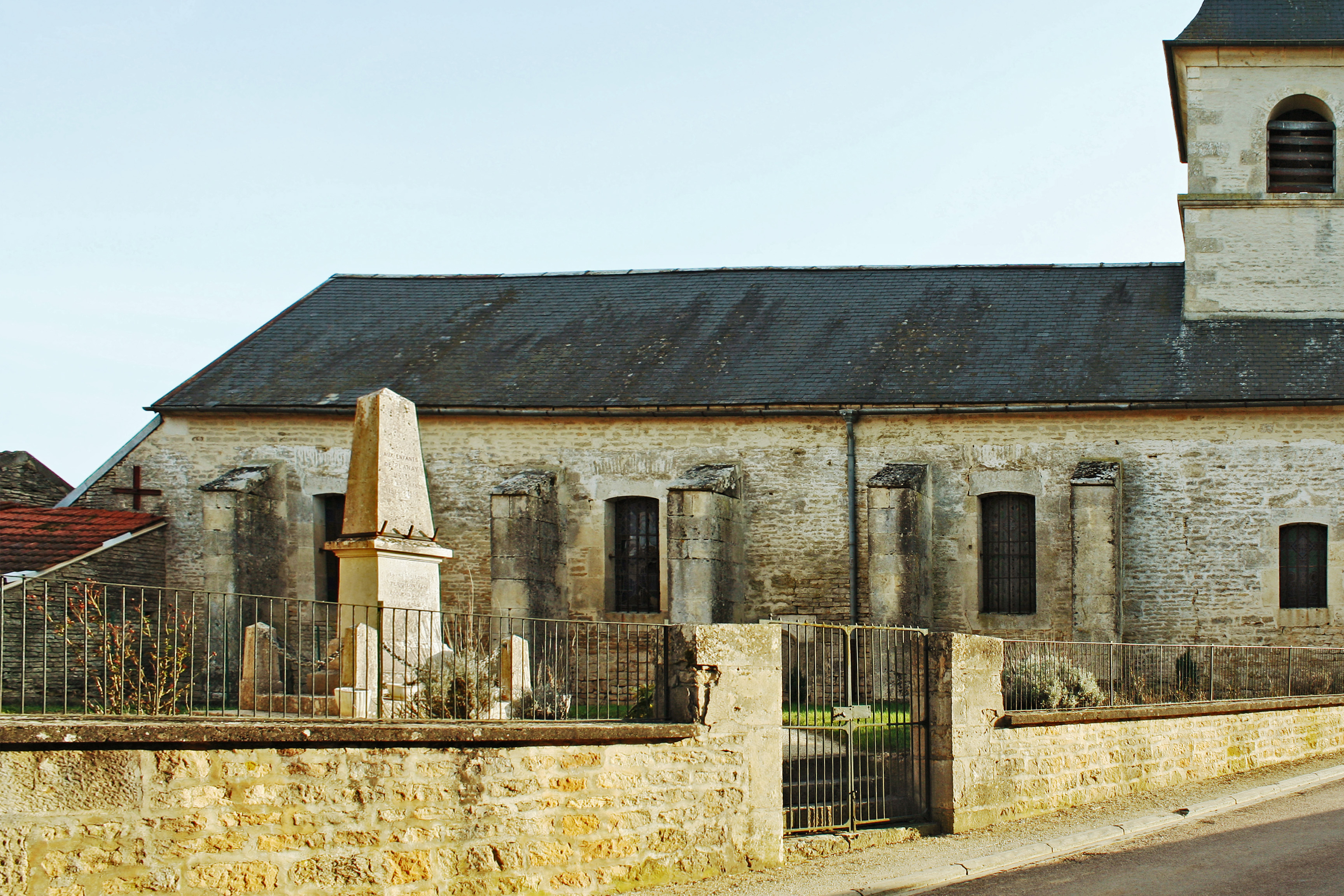 War memorial of Planay